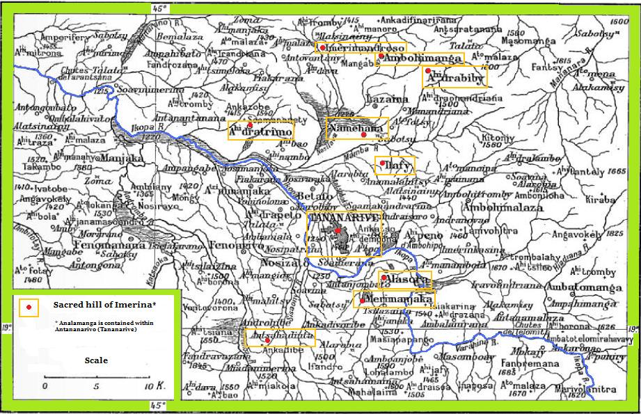 Map of Imerina (around Antananarivo in the Highlands of Madagascar), showing several of the twelve sacred hills.